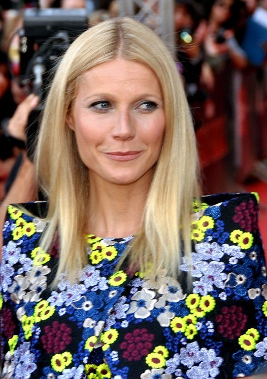 Gwyneth Paltrow in Paris at the French premiere of "Iron Man 3".